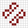 Bakery still life from Conway's game of life